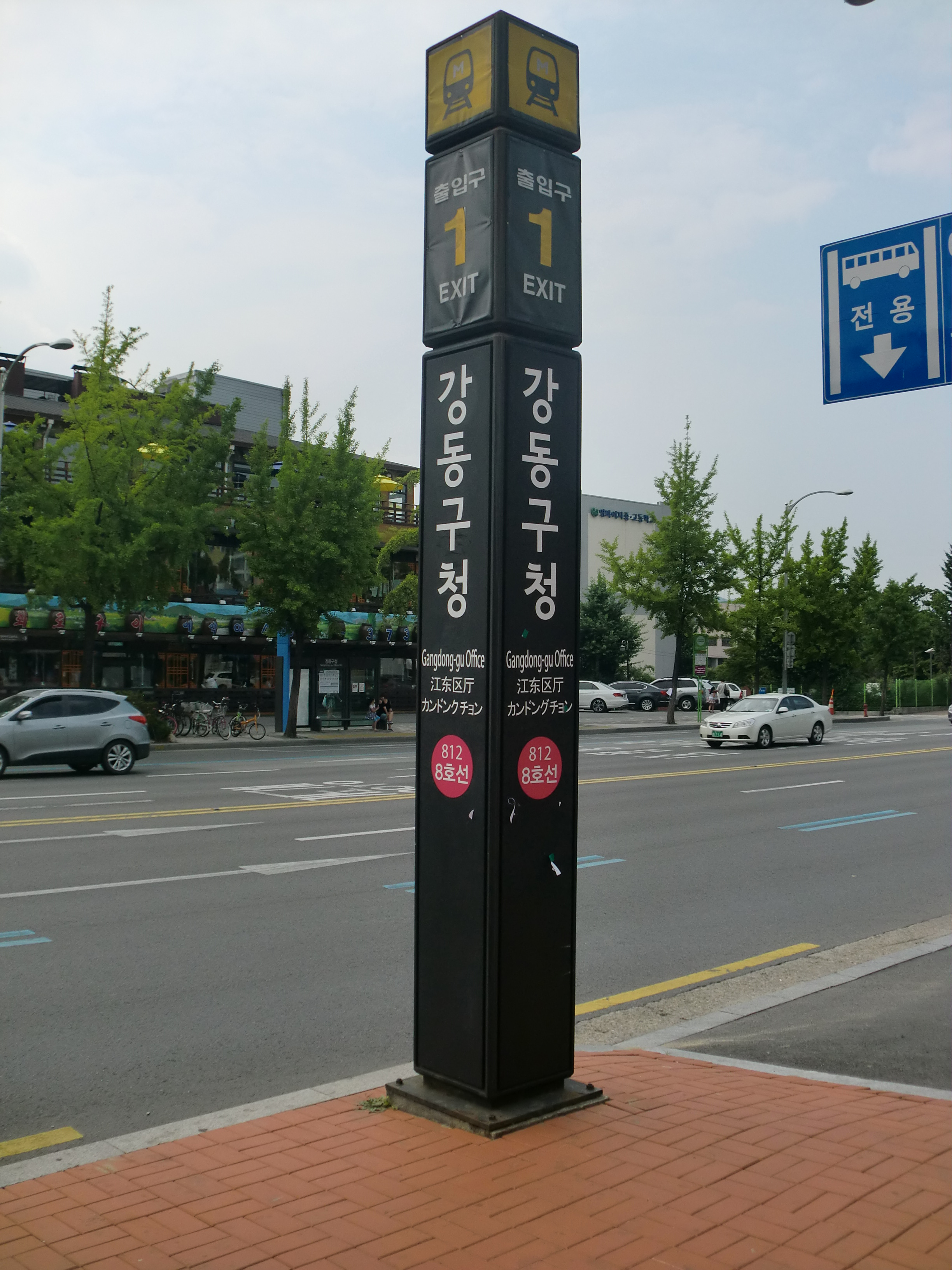 서울특별시 강동구에 있는 강동구청역 1번출구